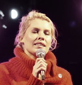 Malene Mortensen, singer